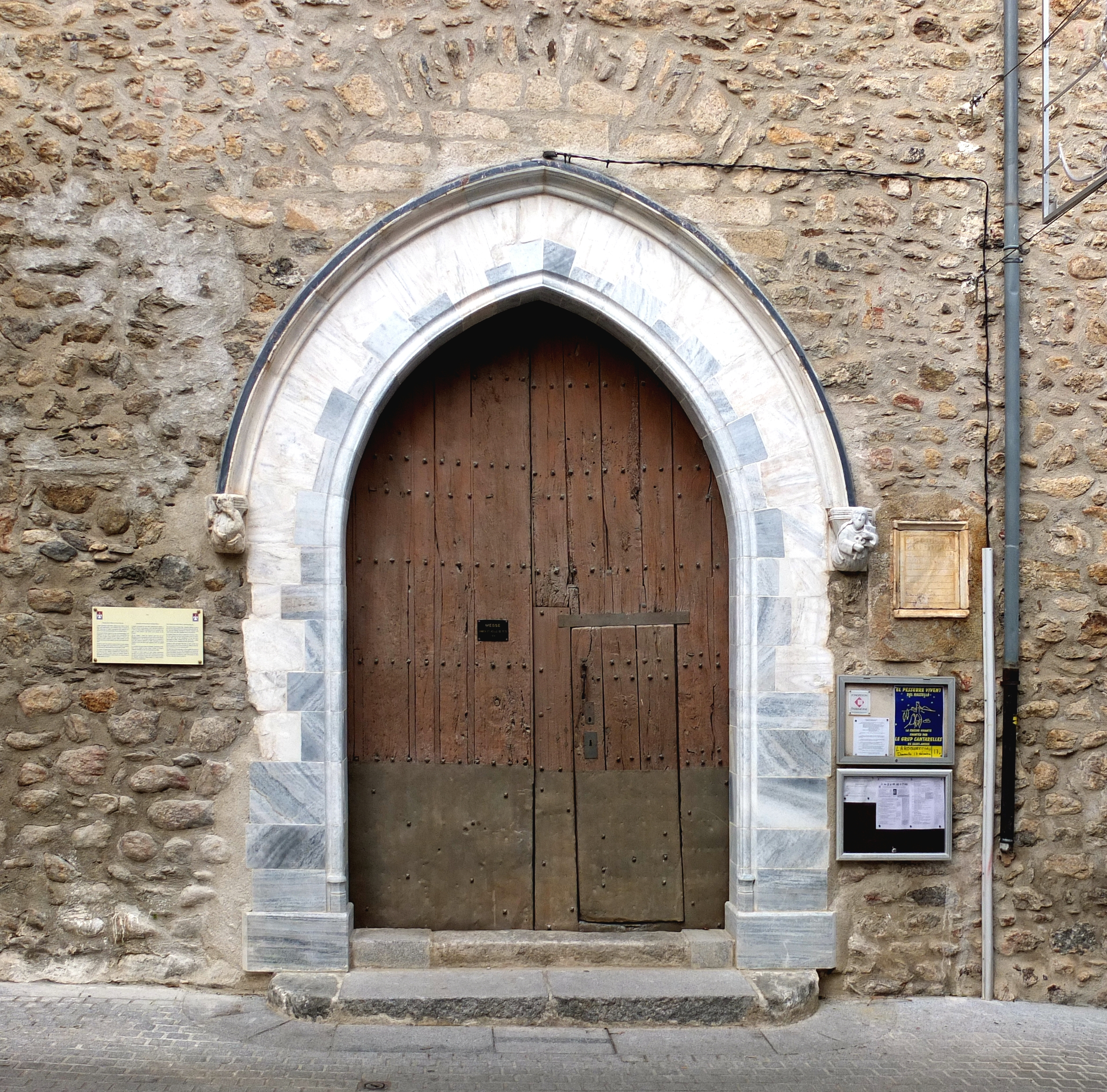 Portal (built 1527) of Église Saint-Félix-et-Saint-Blaise de Laroque-des-Albères, France. Marble corbels of Saint Paul (left) and Saint Peter (right).